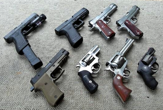 Clockwise from top left: Glock G22, Glock G21, Kimber Custom Raptor, Dan Wesson Commander, Smith & Wesson .357, Ruger Blackhawk .357, Ruger SP101, Sig Sauer P220 Combat.